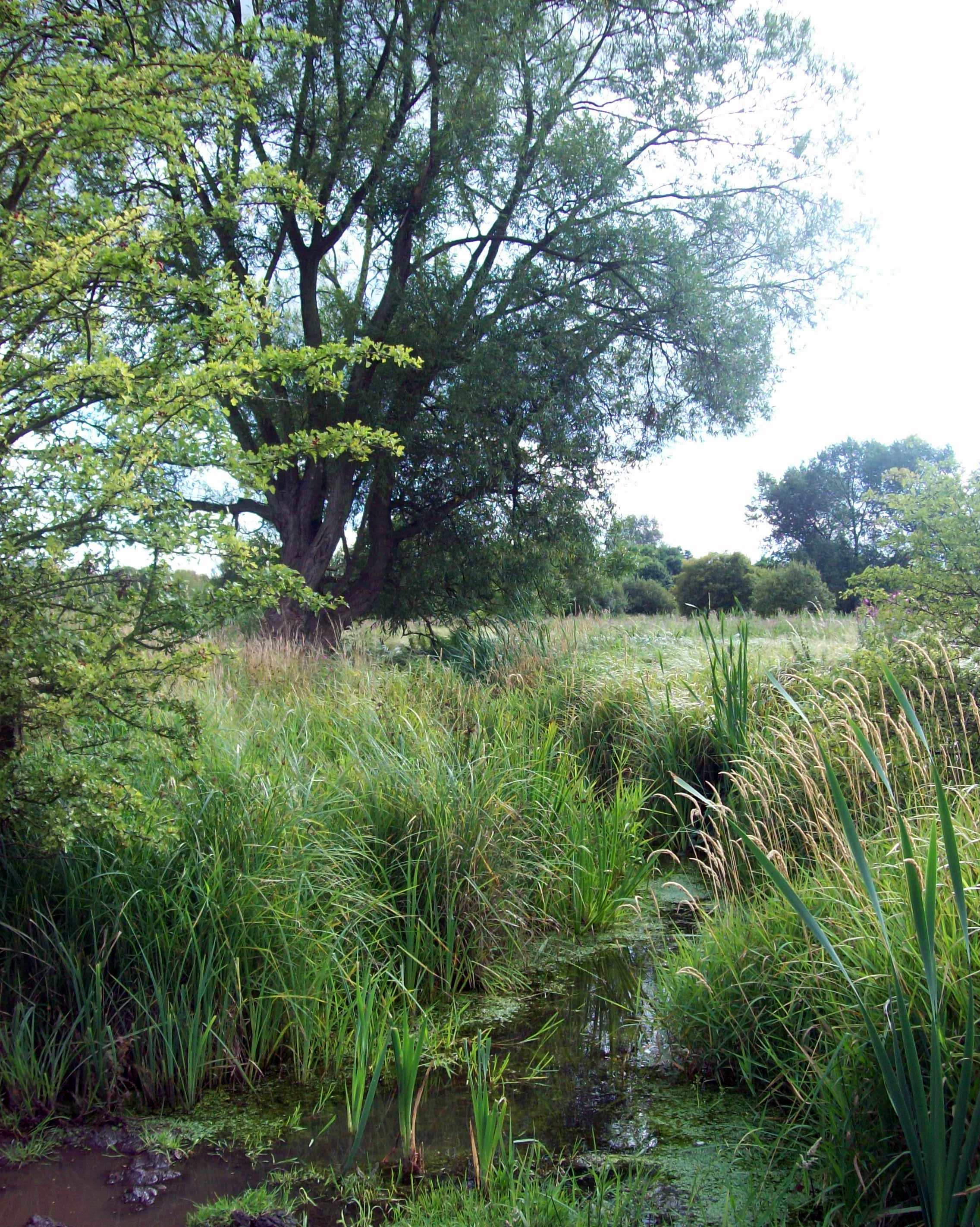 View of Jockey Fields SSSI, Walsall Wood, West Midlands, England: Showing range of habitats including vegetated ditch.